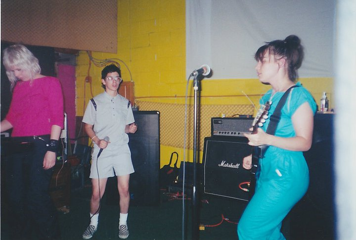 Le Tigre, live at the Volcano Room, live in the Indianapolis, Indiana, on September 22, 2000.